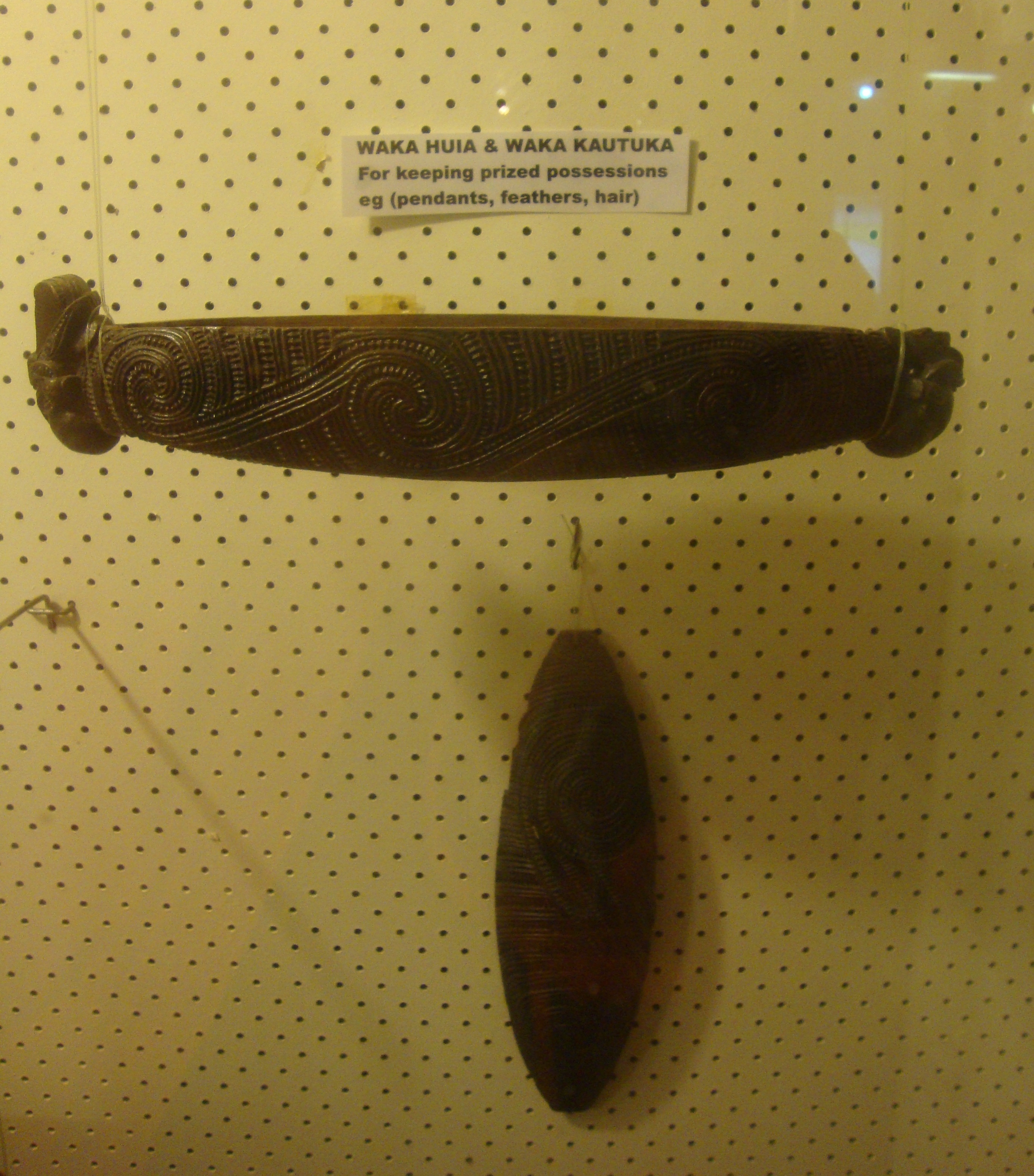 A waka huia (a container for prized possessions, e.g. huia feathers).